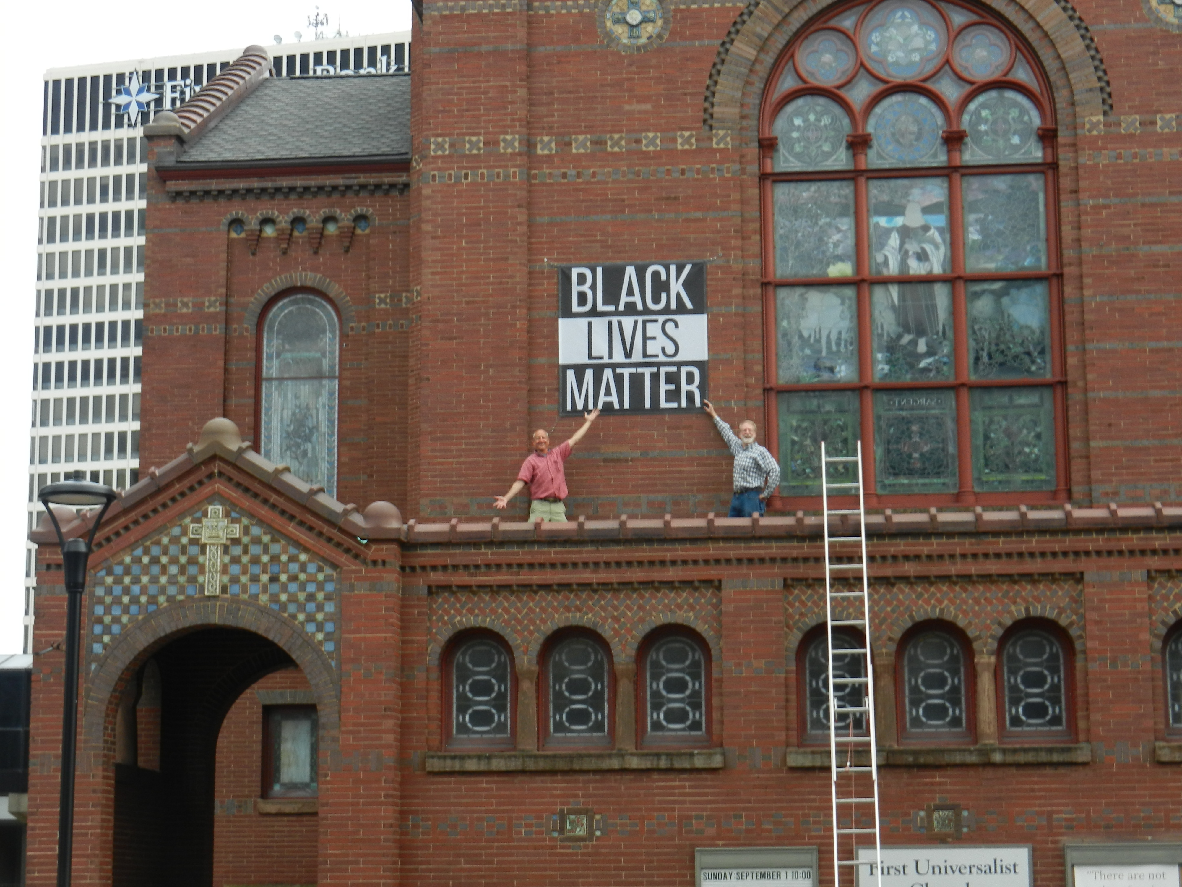 A photograph of the hanging of the Black Lives Matter outdoor banner on Sunday, Sept. 1st, 2019